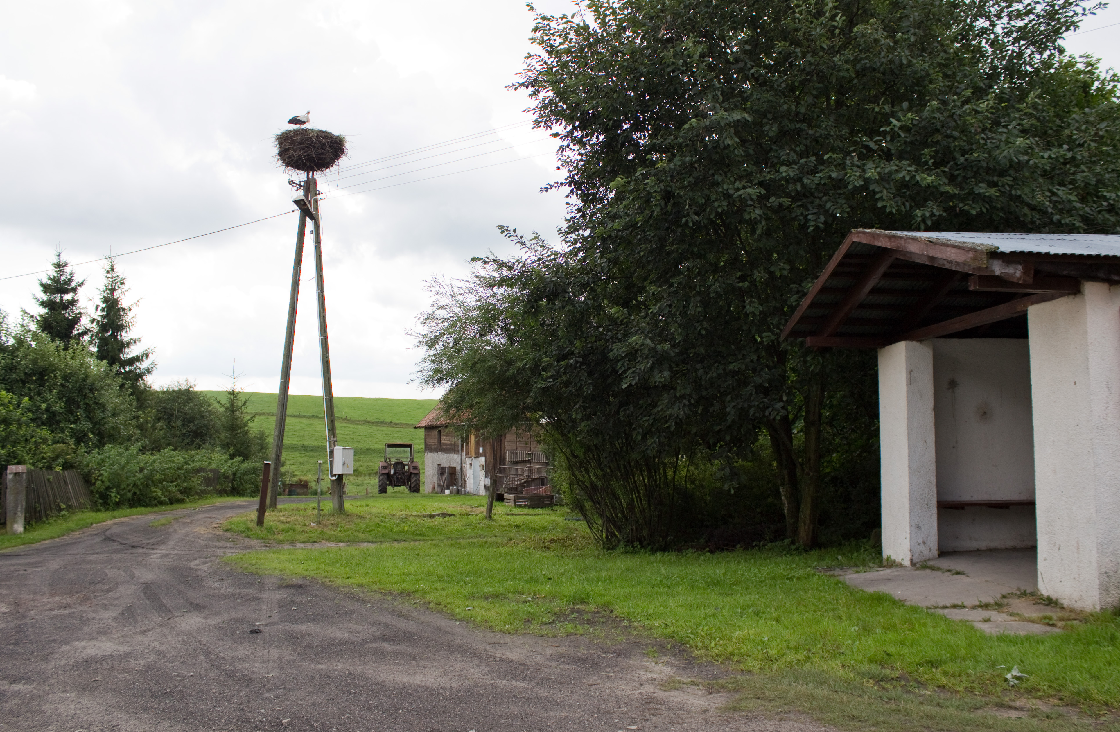 Gronowo, gmina Mrągowo, powiat mrągowski, Warmian-Masurian Voivodeship